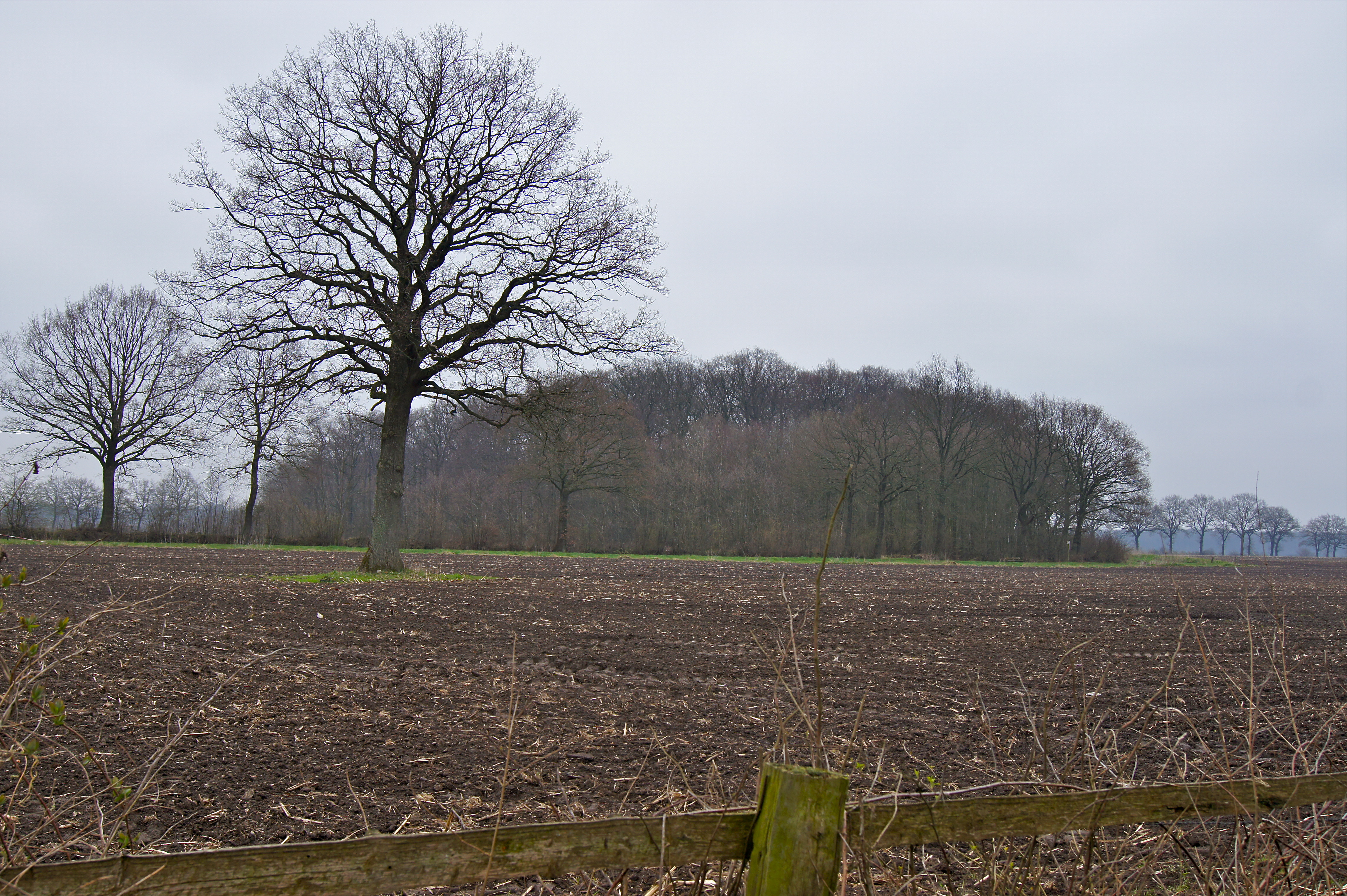 Bilsen, Germany: Tumulus